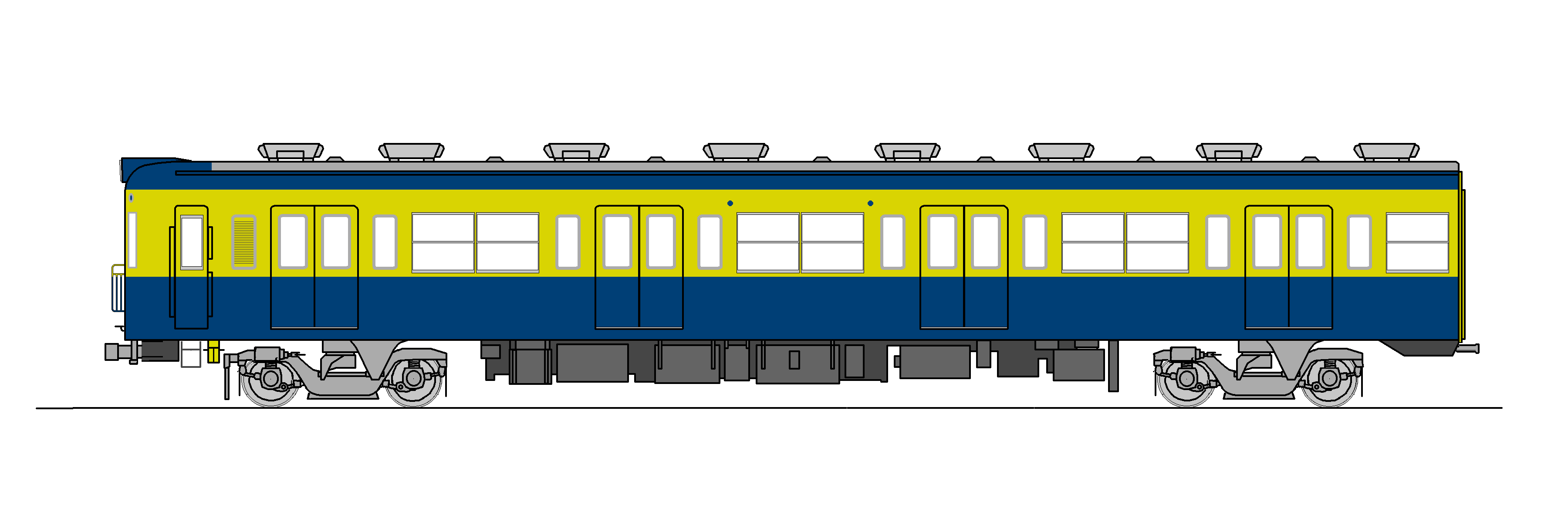 The side view of the EMU series 2600 of Odakyu Electric Railway.